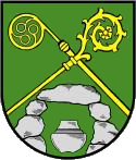 Coat of arms of Weiler